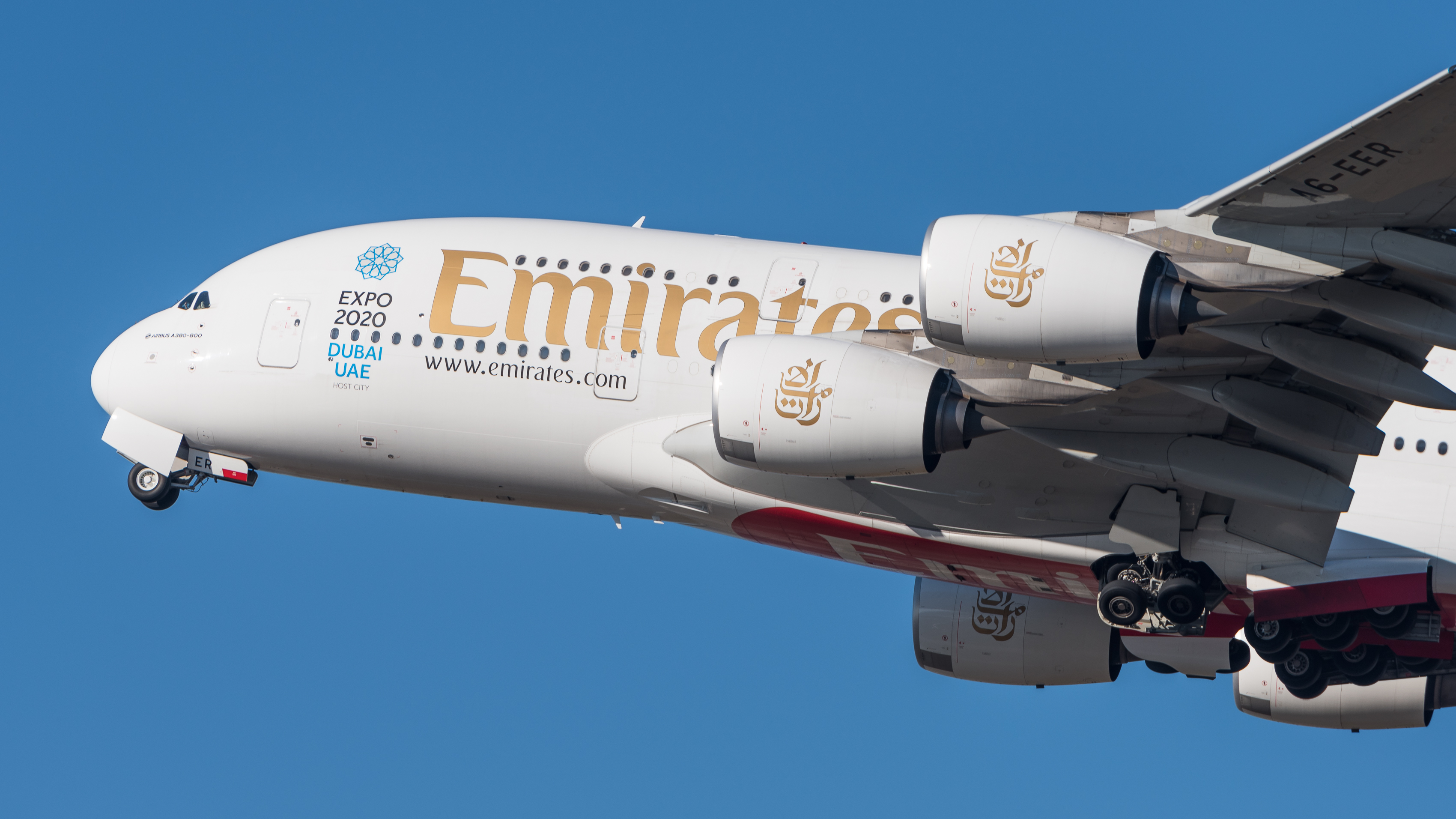 Emirates Airbus A380-861 (reg. A6-EER, msn 139) at Munich Airport (IATA: MUC; ICAO: EDDM) departing 26L. See also : File:Emirates Airbus A380-861 A6-EER MUC 2015 01.jpg File:Emirates Airbus A380-861 A6-EER MUC 2015 02.jpg File:Emirates Airbus A380-861 A6-EER MUC 2015 03.jpg File:Emirates Airbus A380-861 A6-EER MUC 2015 04.jpg